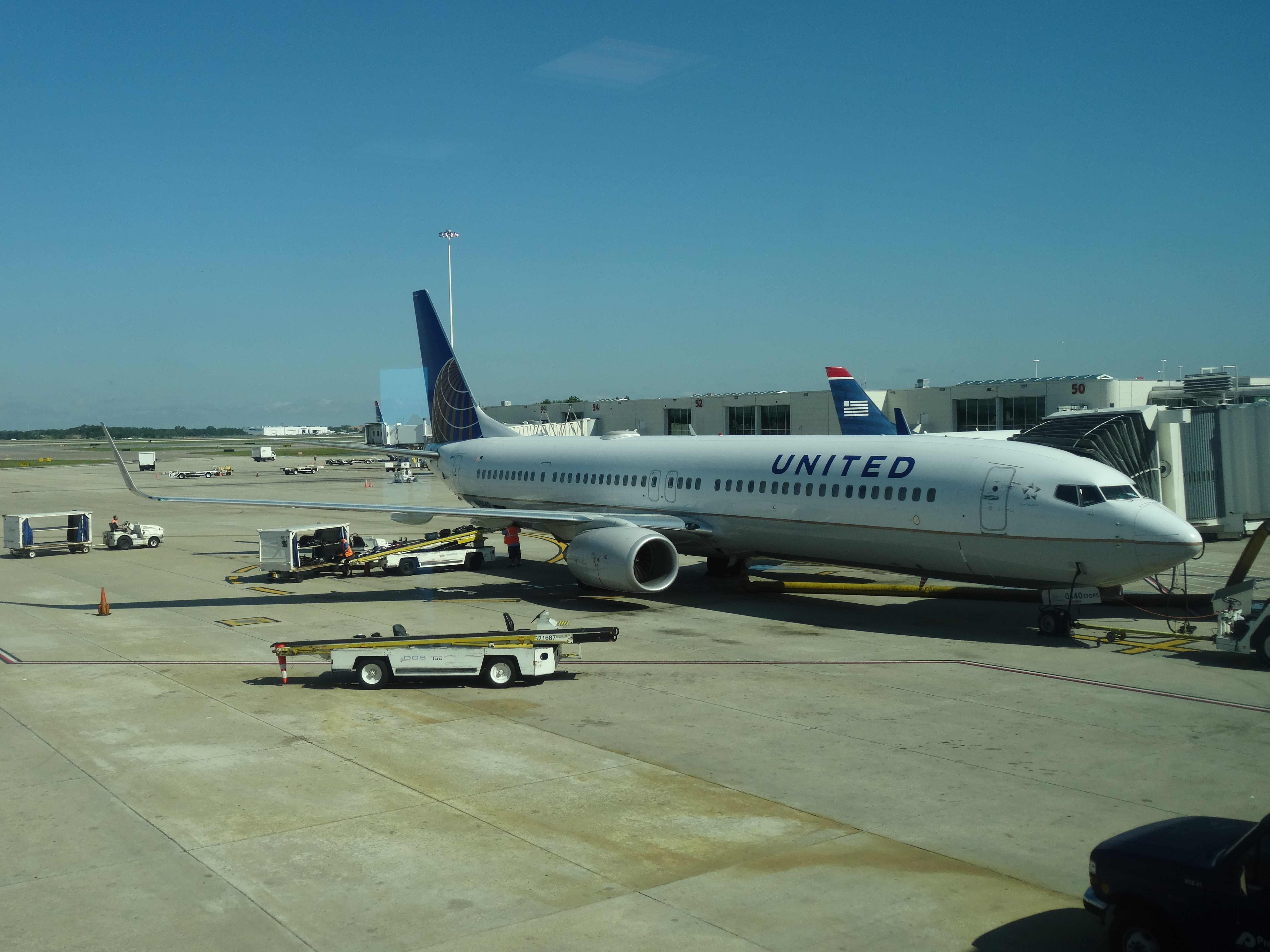 United Airlines at Gate 41 getting ready to depart to Newark